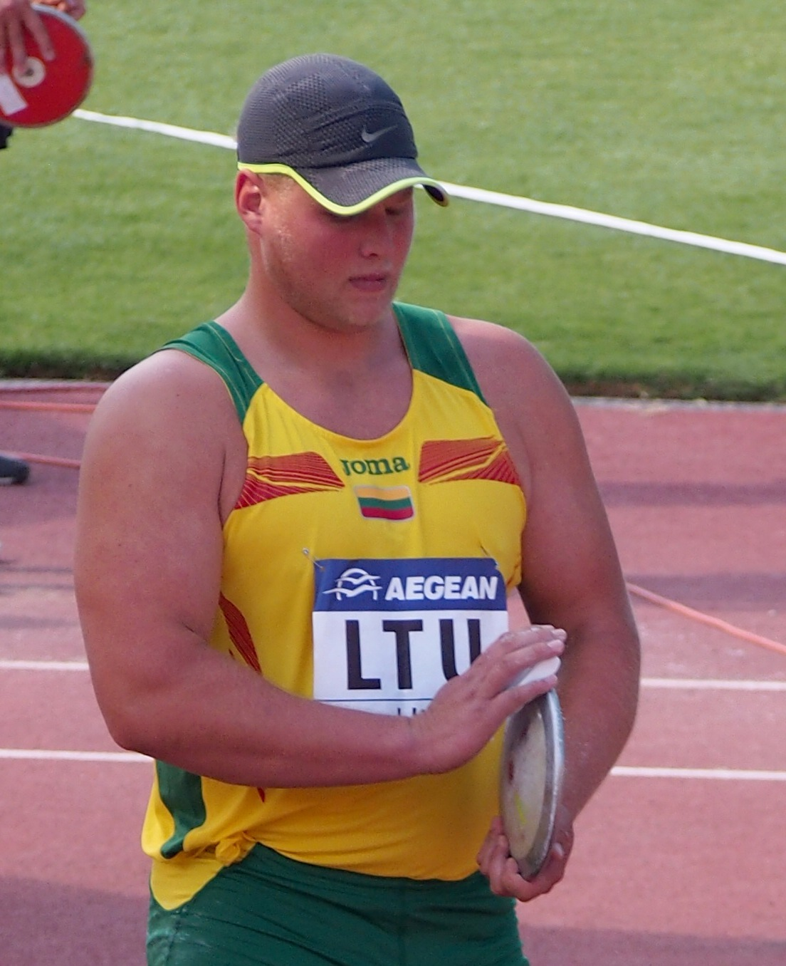 Andrius Gudžius during 2015 European Team Championships First League.